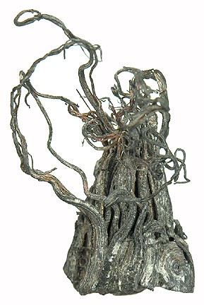 Silver Locality: Porco, Agua de Castilla, Antonio Quijarro Province, Potosí Department, Bolivia (Locality at ) Size: 1.9 x 1.2 x 0.7 cm. This piece really catches one’s attention. Typically the Silver specimens from Bolivia are somewhat "flat" and boring, but this piece is amazingly aesthetic for a Bolivian Silver. It is a fine, decent-sized (for this mine) group of wires forming a very attractive specimen. This is a great thumbnail specimen from a classic Bolivian locality. The mine at Porco is THE oldest and most significant Silver mine in Bolivia, and obtaining specimens is next to impossible because miners rarely bring out anything for sale, as the mine is a large commercial production, and virtually everything goes into the crusher. Most everything that evades the crusher is usually taken out of Bolivia by a geologist who has an "in" at the mine. This is why it is so difficult to obtain any good Silvers from Porco. Ex. Brian Kosnar Collection.